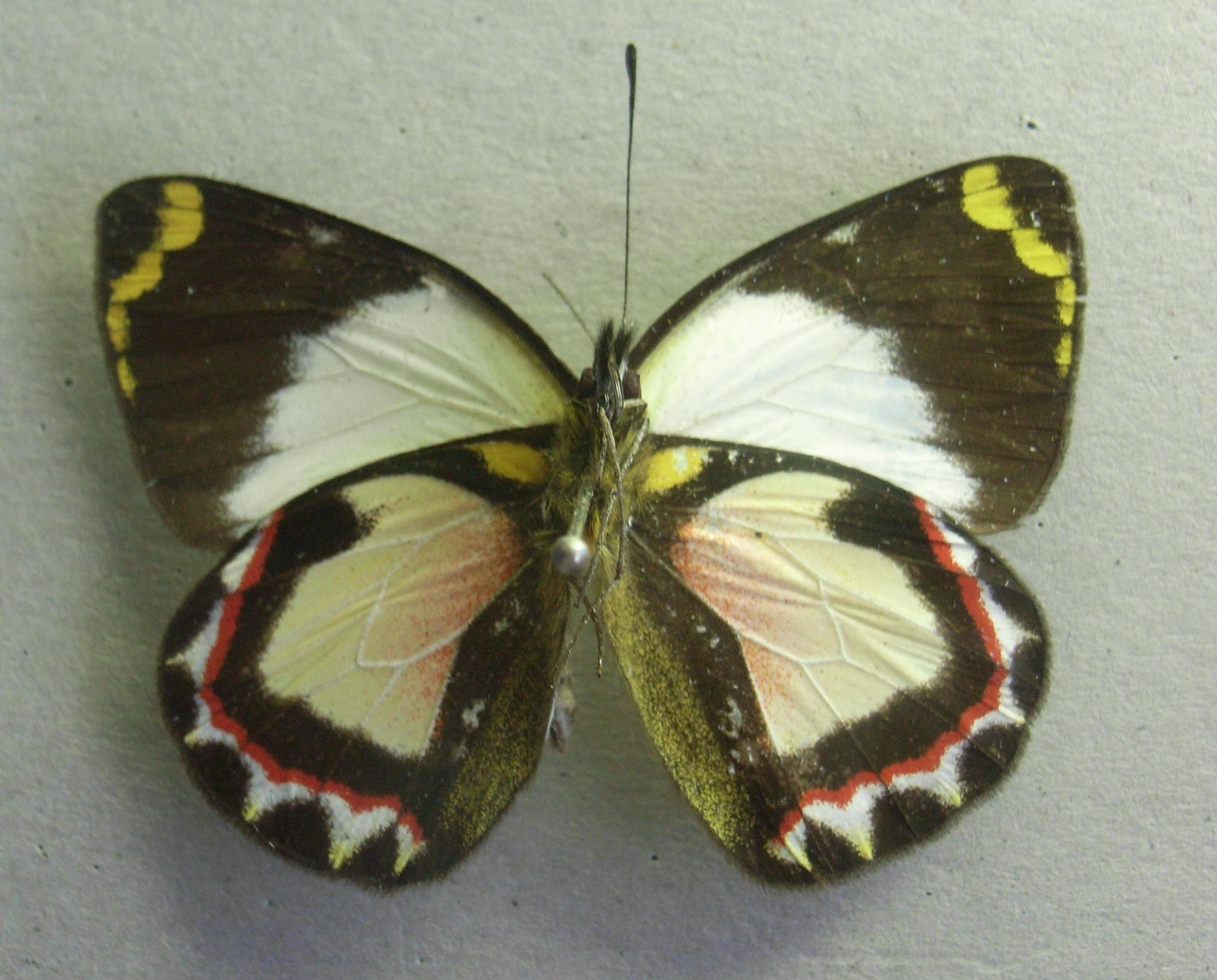 Delias mesoblema:Pierinae:Pieridae